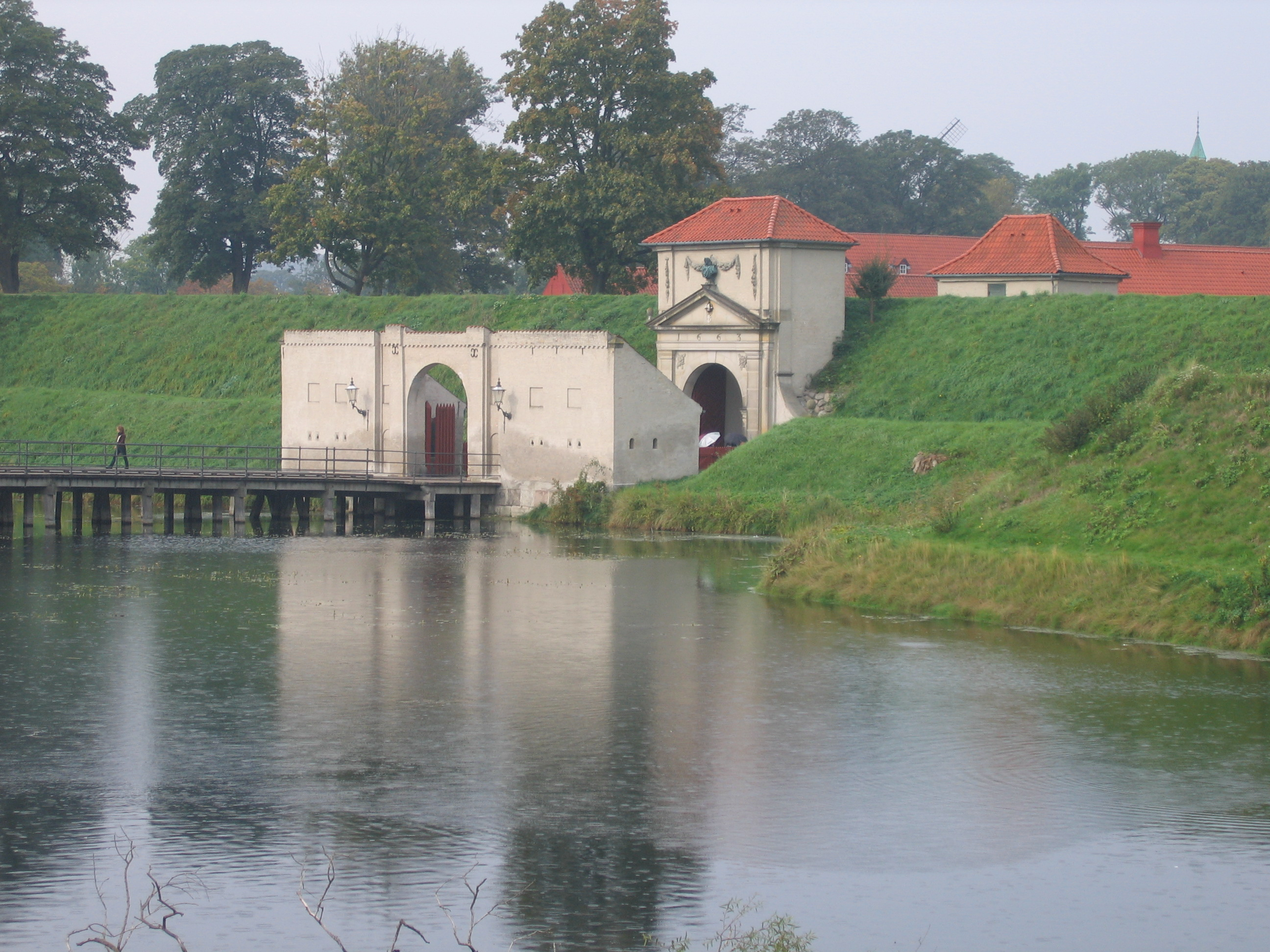 An outisde view of the King's Gate at Kastellet in Copenhagen, Denmark